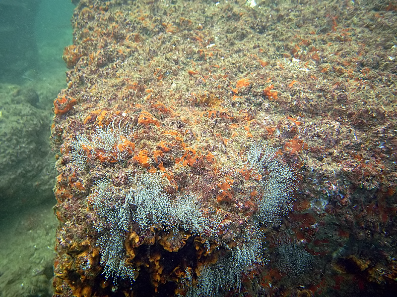 Cover of vegetation at stone artefacts at the underwater museum near the former lighthouse, Alexandria, Egypt